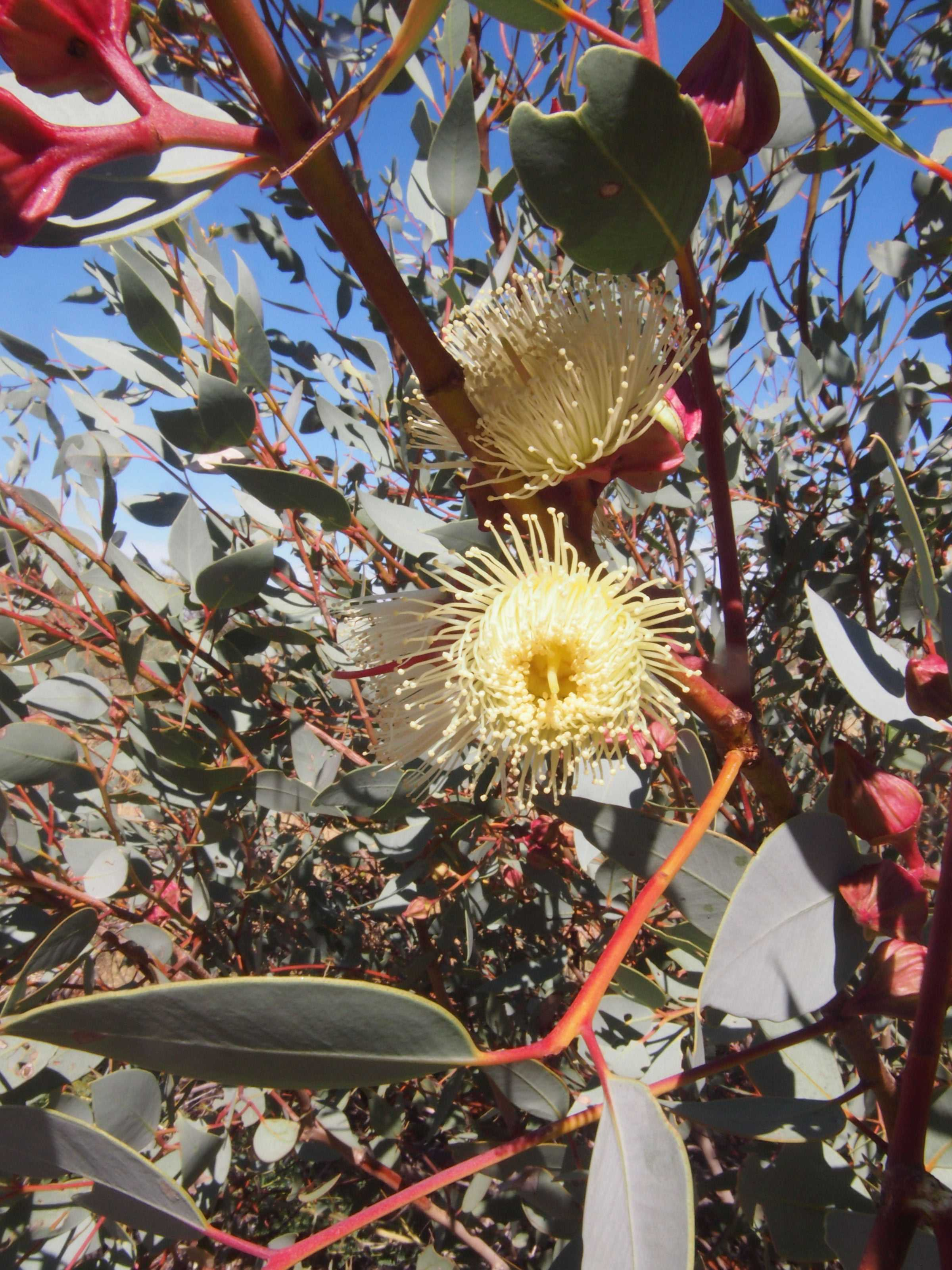 Eucalyptus pachyphylla flowers